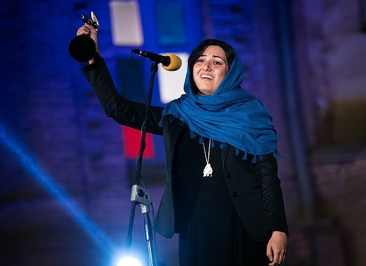 Baran Kosari at 18th Iranian Cinema Celebrations